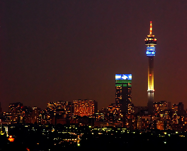 Hillbrow Tower in Johannesburg, South Africa